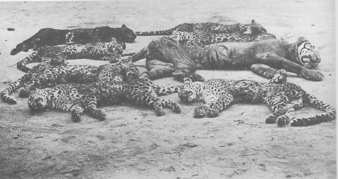 Seven Javan leopards and one Javan tiger killed during Rampog (Rampokan) macan in Kediri around 1900.